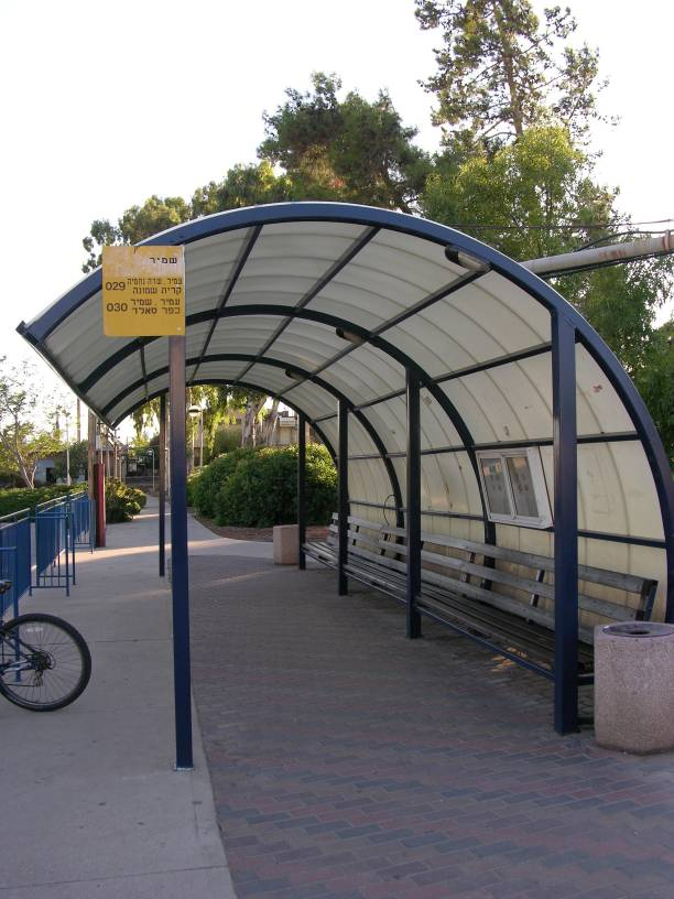 Bus stop at Kibbutz Shamir, Israel